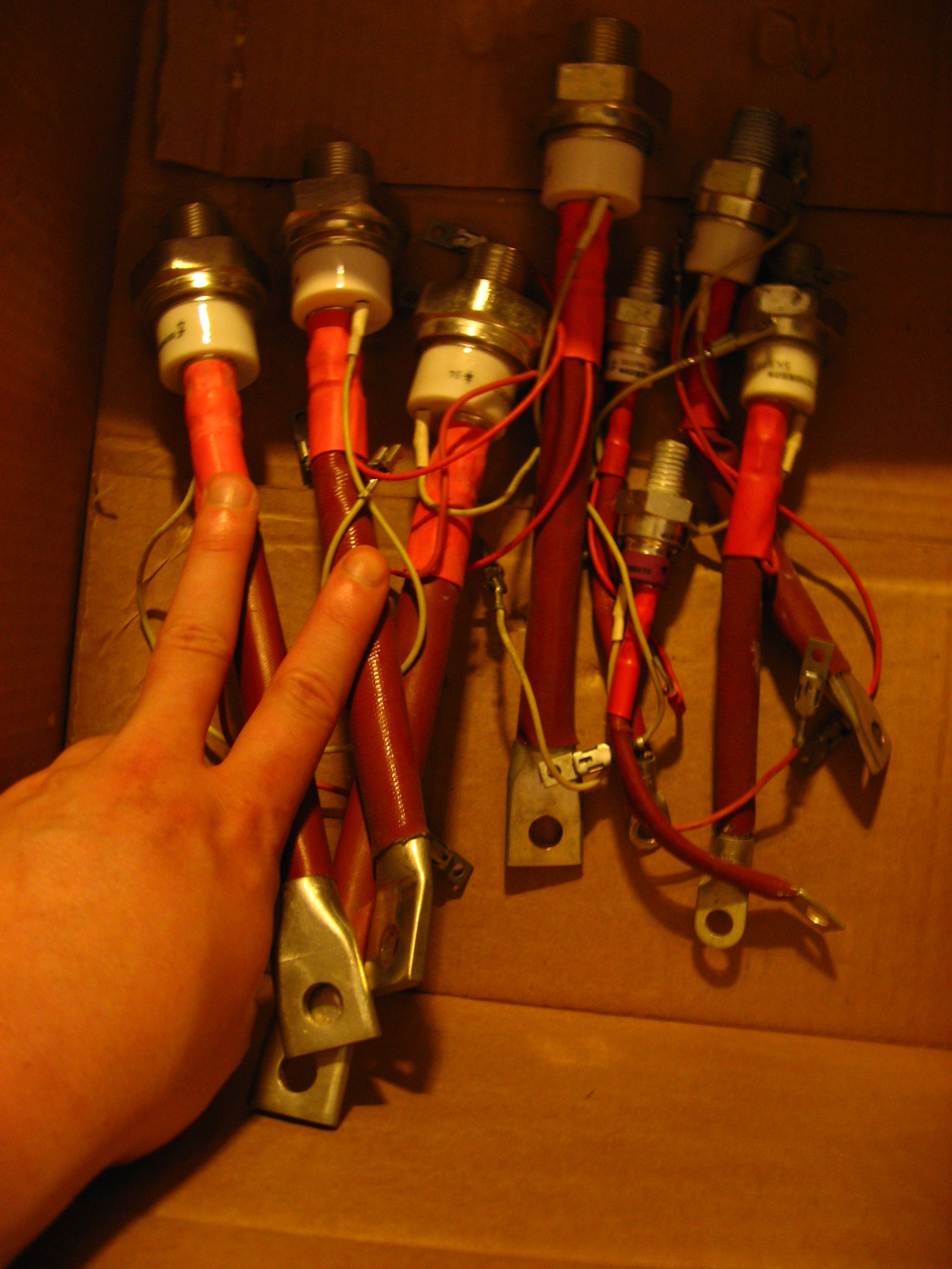 High current thyristors